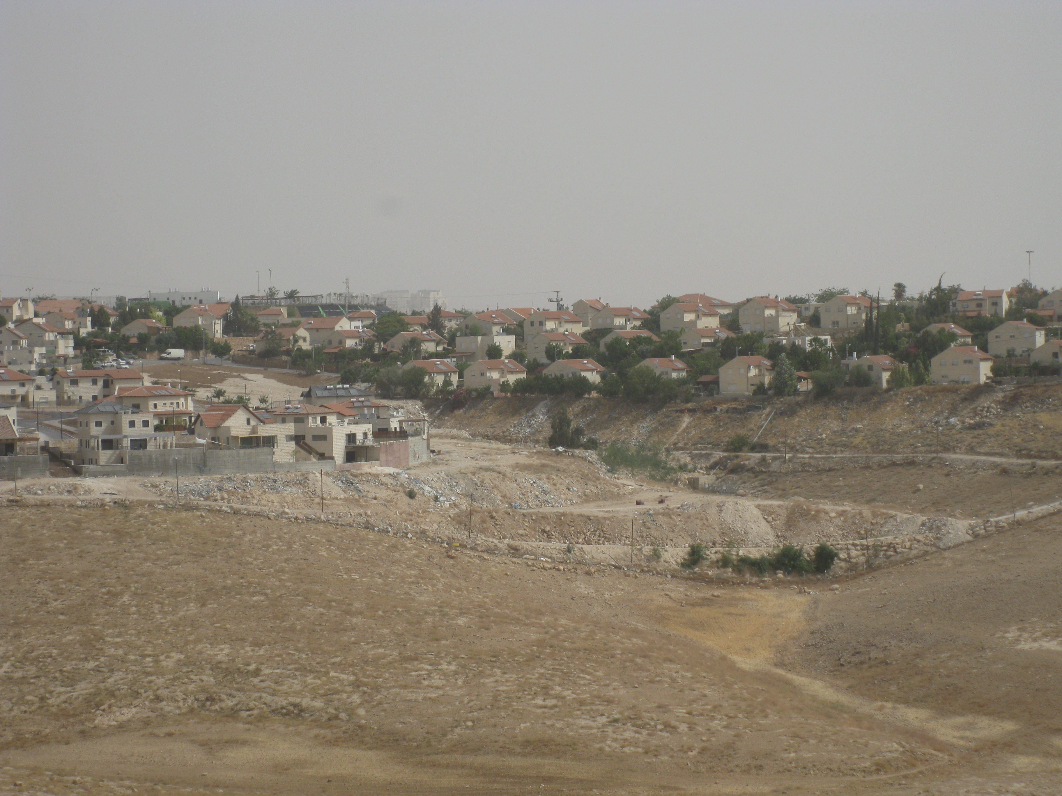 Kedar - in the Judean Desert